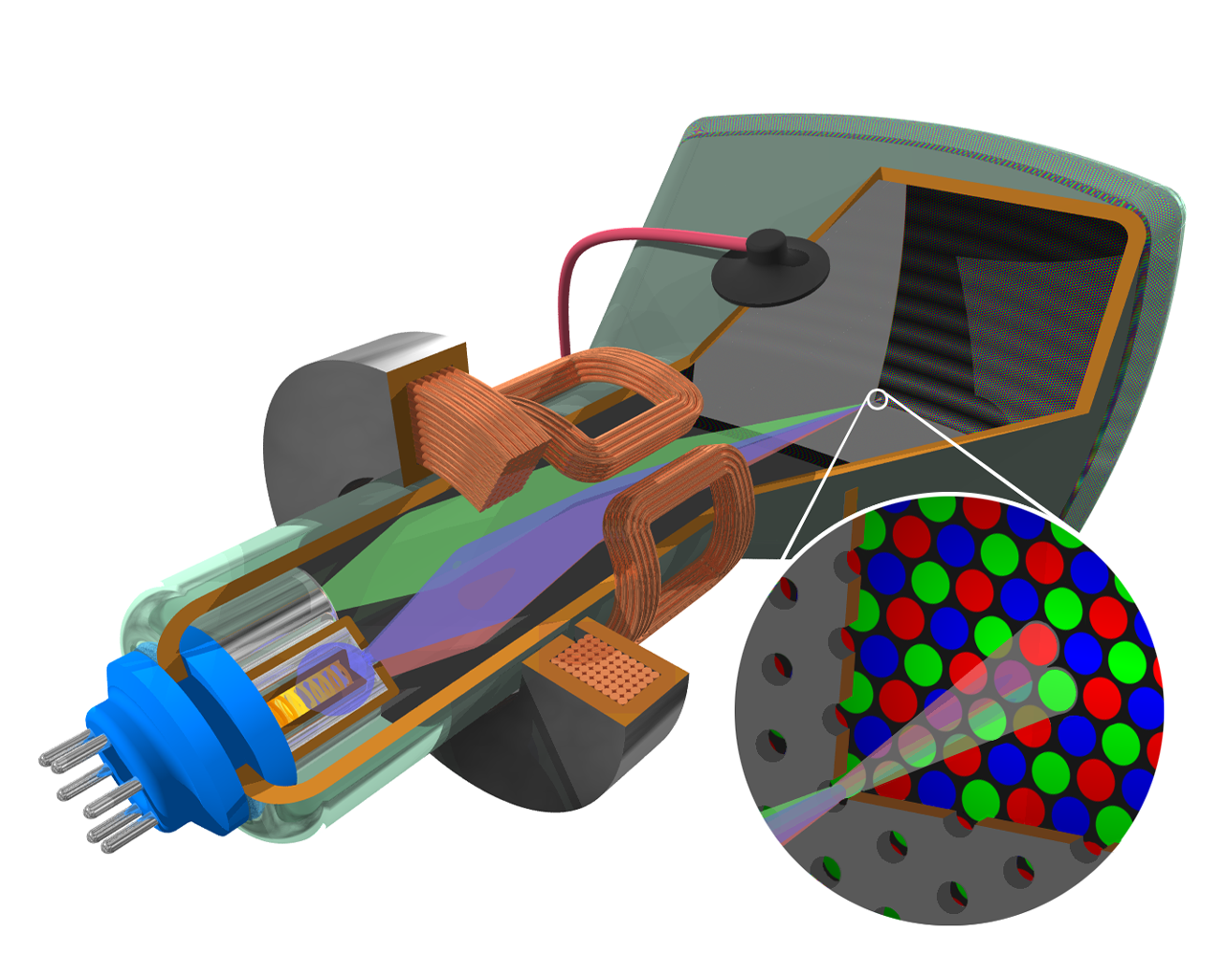 A diagram of a color cathode ray tube